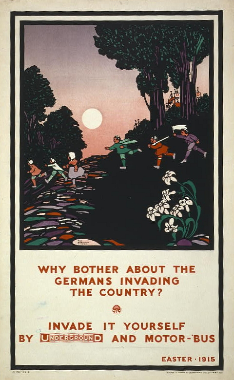 London Underground World War I poster. "Why bother about the Germans invading the country? Invade it yourself by Underground and motor-'bus. Easter - 1915